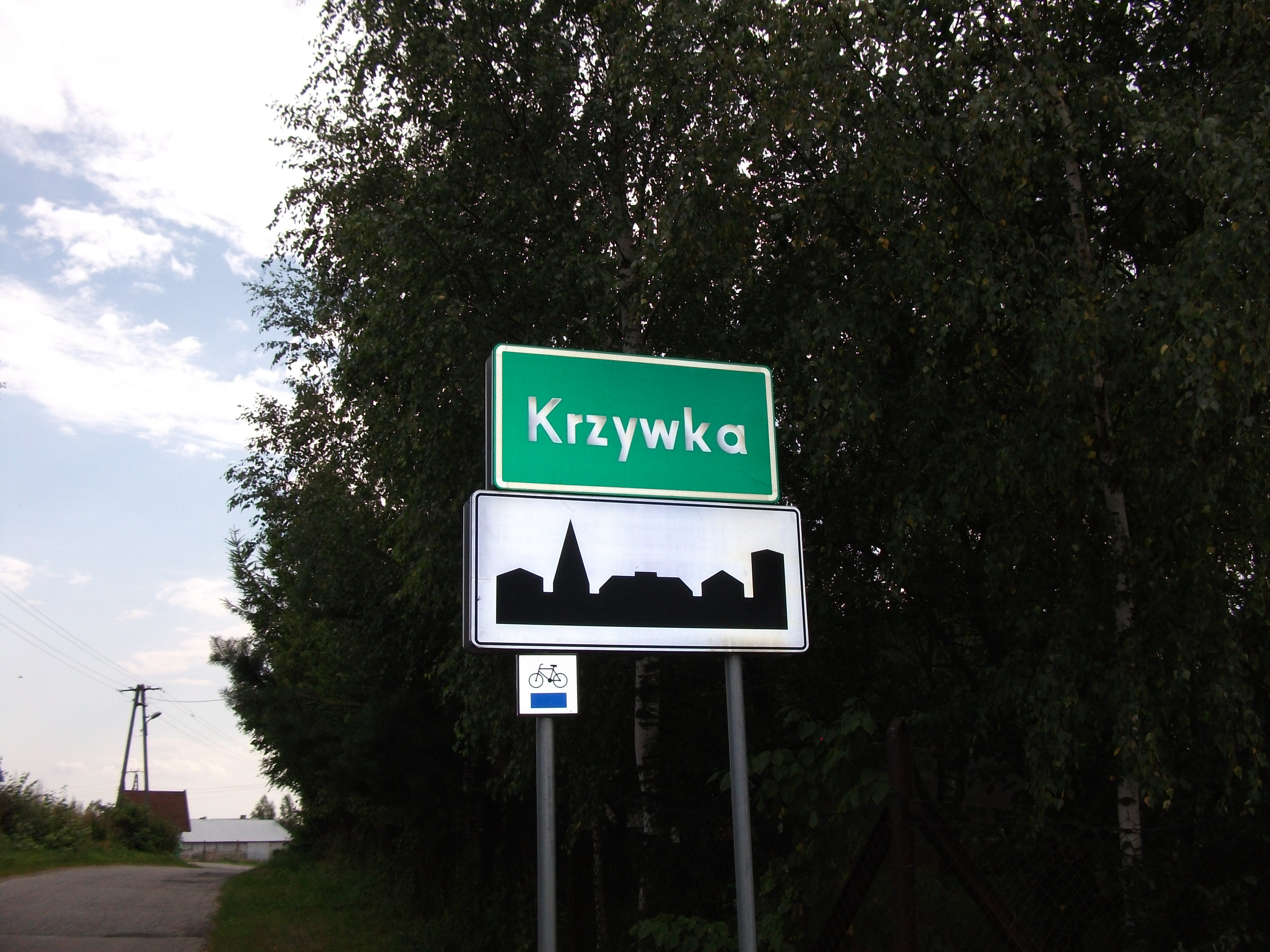 Krzywka near Kisielice